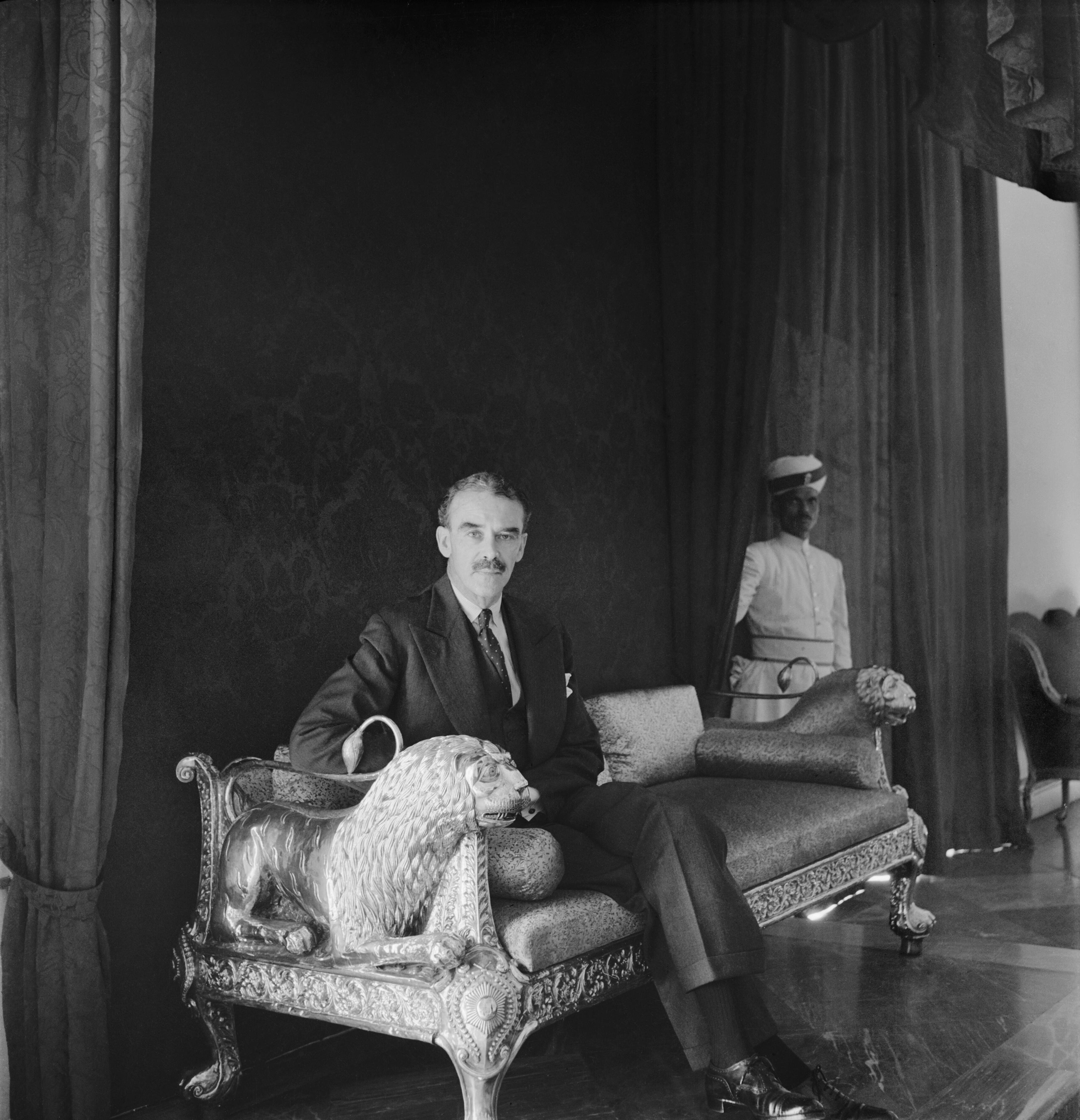 Cecil Beaton Photographs- Political and Military Personalities Political Personalities: Mr R G Casey, the Australian diplomat who became Governor of Bengal, seated on a sofa at Government House, Calcutta, India.